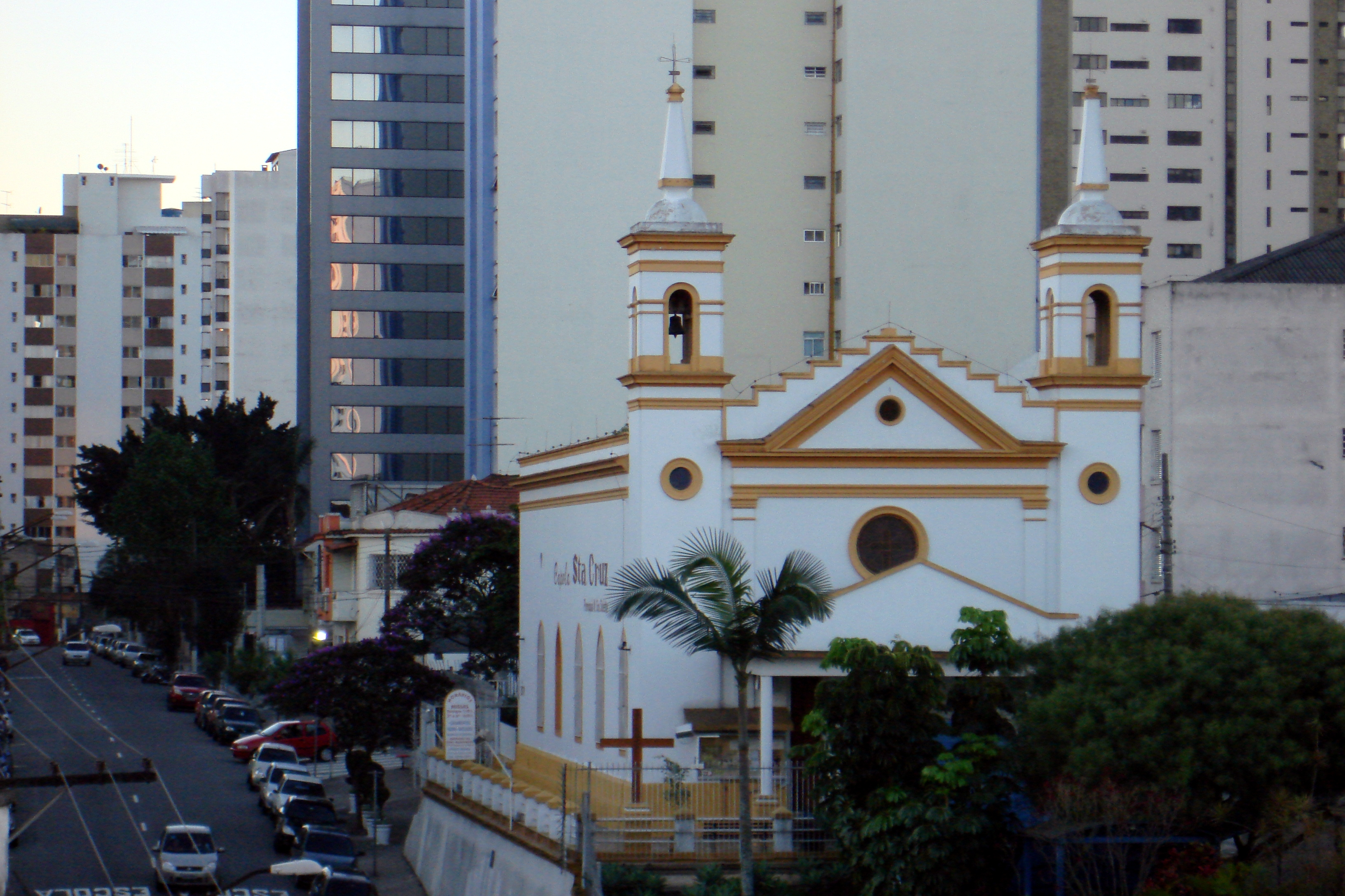 Santa Cruz Chapel, Santana neighbourhood, São Paulo, Brazil